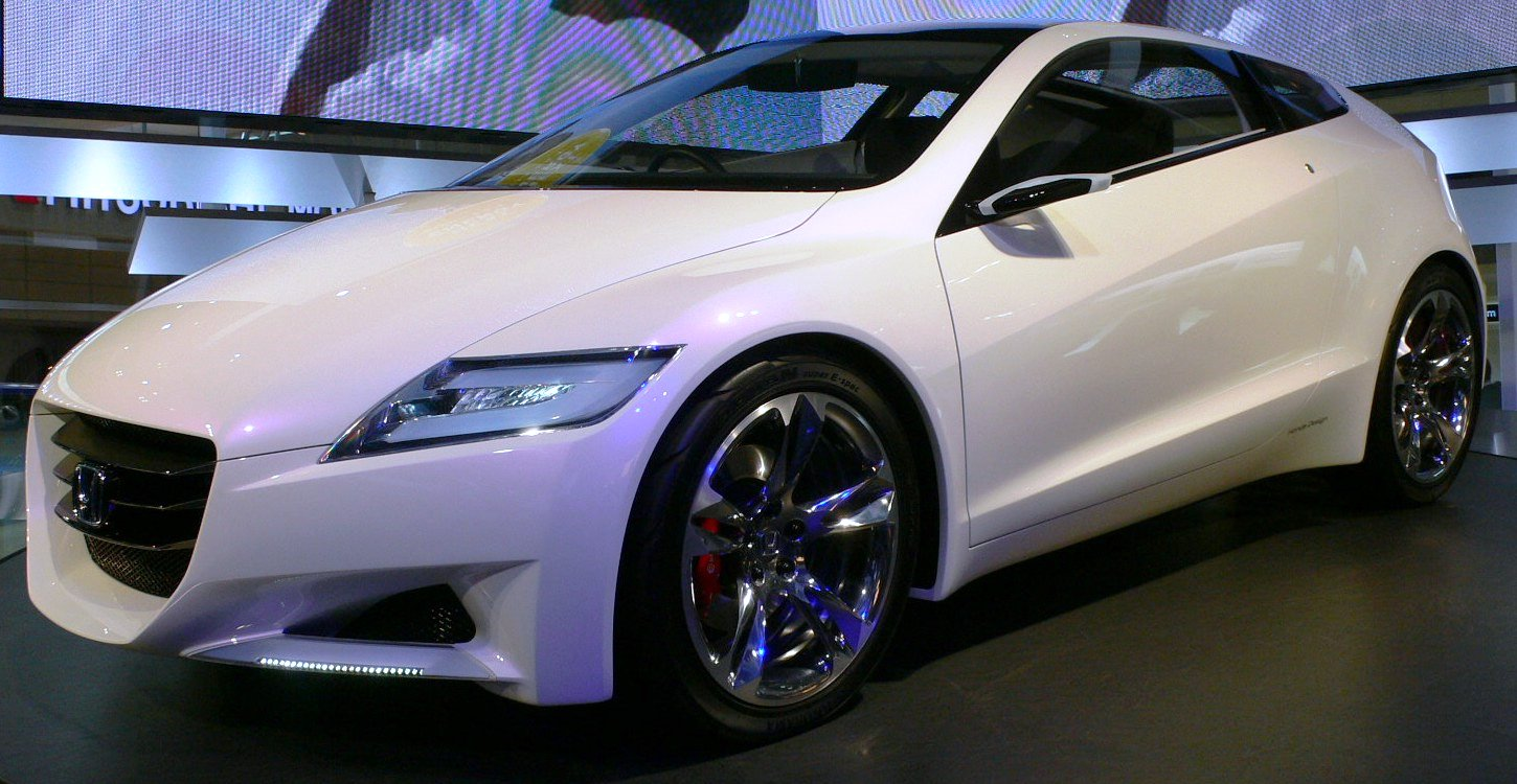 Honda CR-Z photographed in Tokyo Motor Show 2007